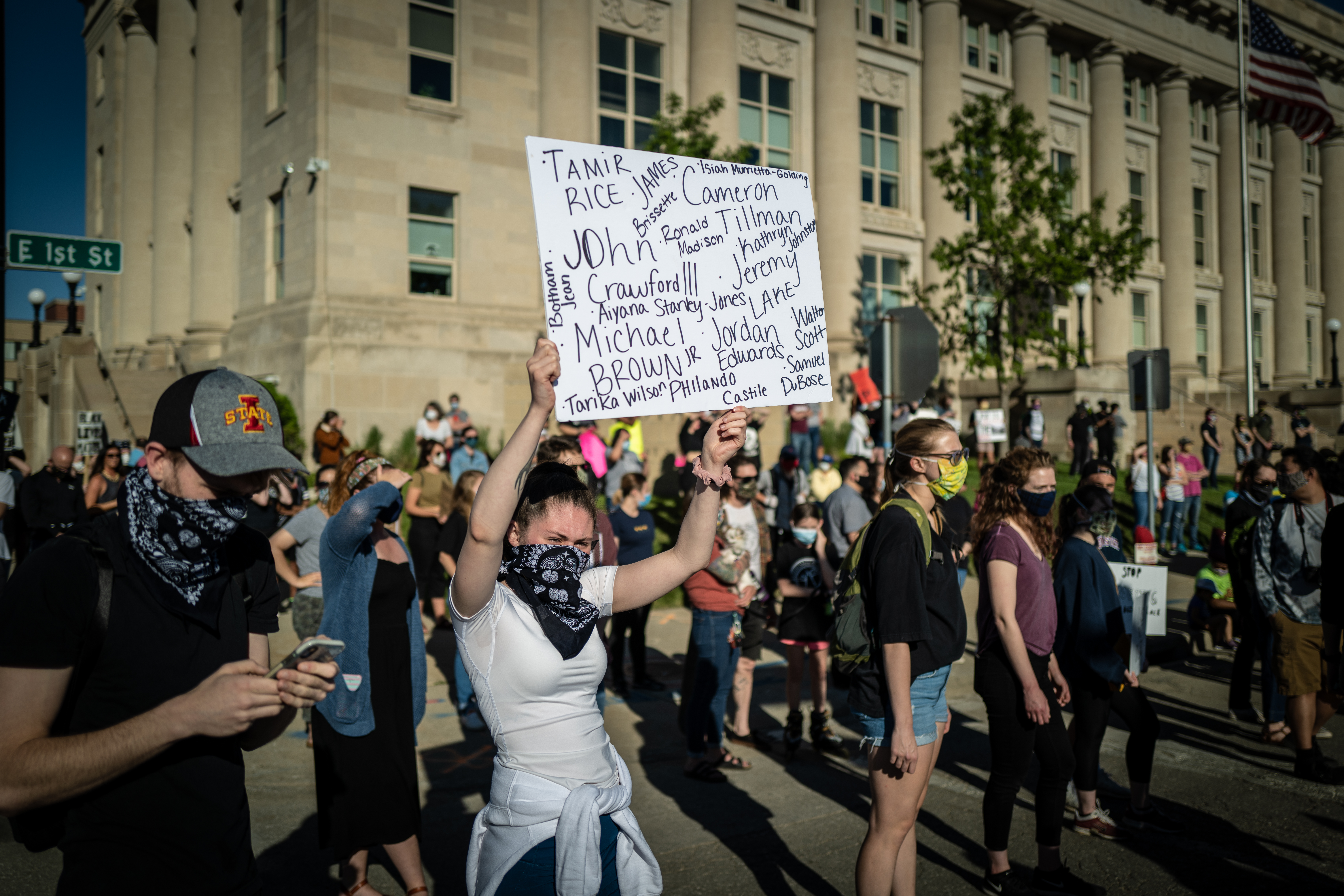 Well over a thousand people gathered in downtown Des Moines, joining other protests around the country demanding justice over the murder of George Floyd by a police officer in Minneapolis. After the organized protest, some people went on to confront police and damage nearby businesses.